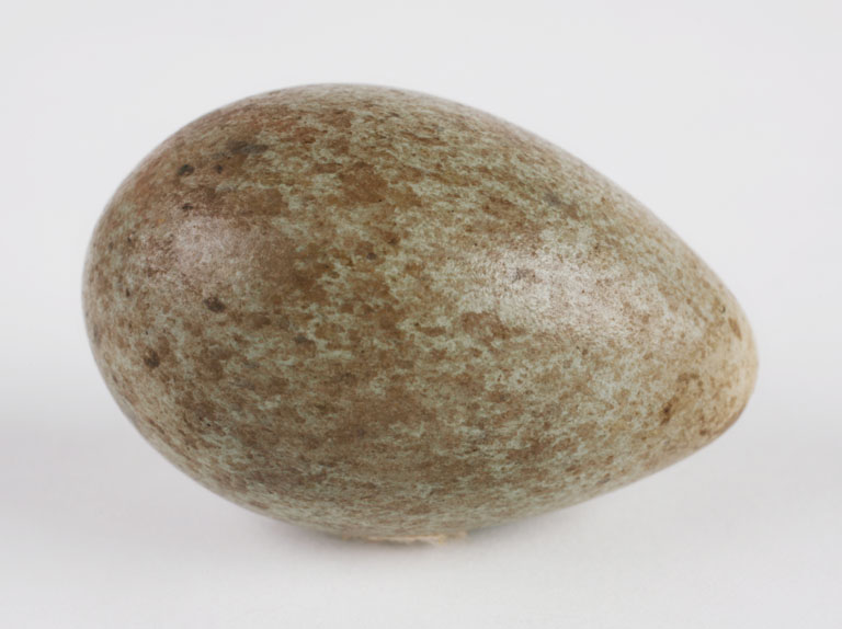 An American crow egg in the permanent collection of The Children’s Museum of Indianapolis.